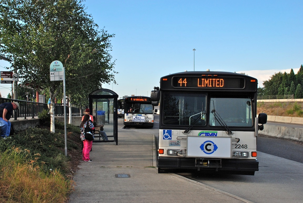 Three C-Tran buses at the Delta Park/Vanport MAX station in 2013. The three buses in the photo are all Gillig "Phantom" model. Although the MAX light rail system is operated by TriMet, the transit agency for the Portland metropolitan area (Oregon portion), the bus transit center at the station is used only by buses of C-Tran, the transit agency for the Washington portion of the metropolitan area.